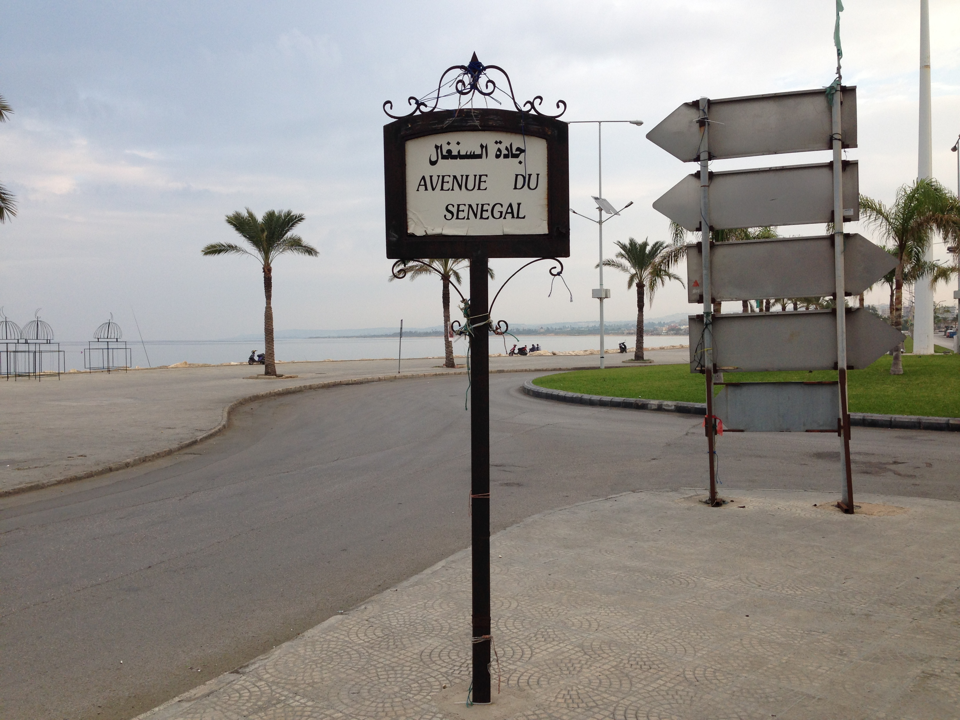 Street sign of Avenue du Senegal in the Southern Lebanese city of Tyre (Sour/Tyr/Tyros), which is also known as "Little West Africa", since many members of the Lebanese diaspora there originate from Southern Lebanon.